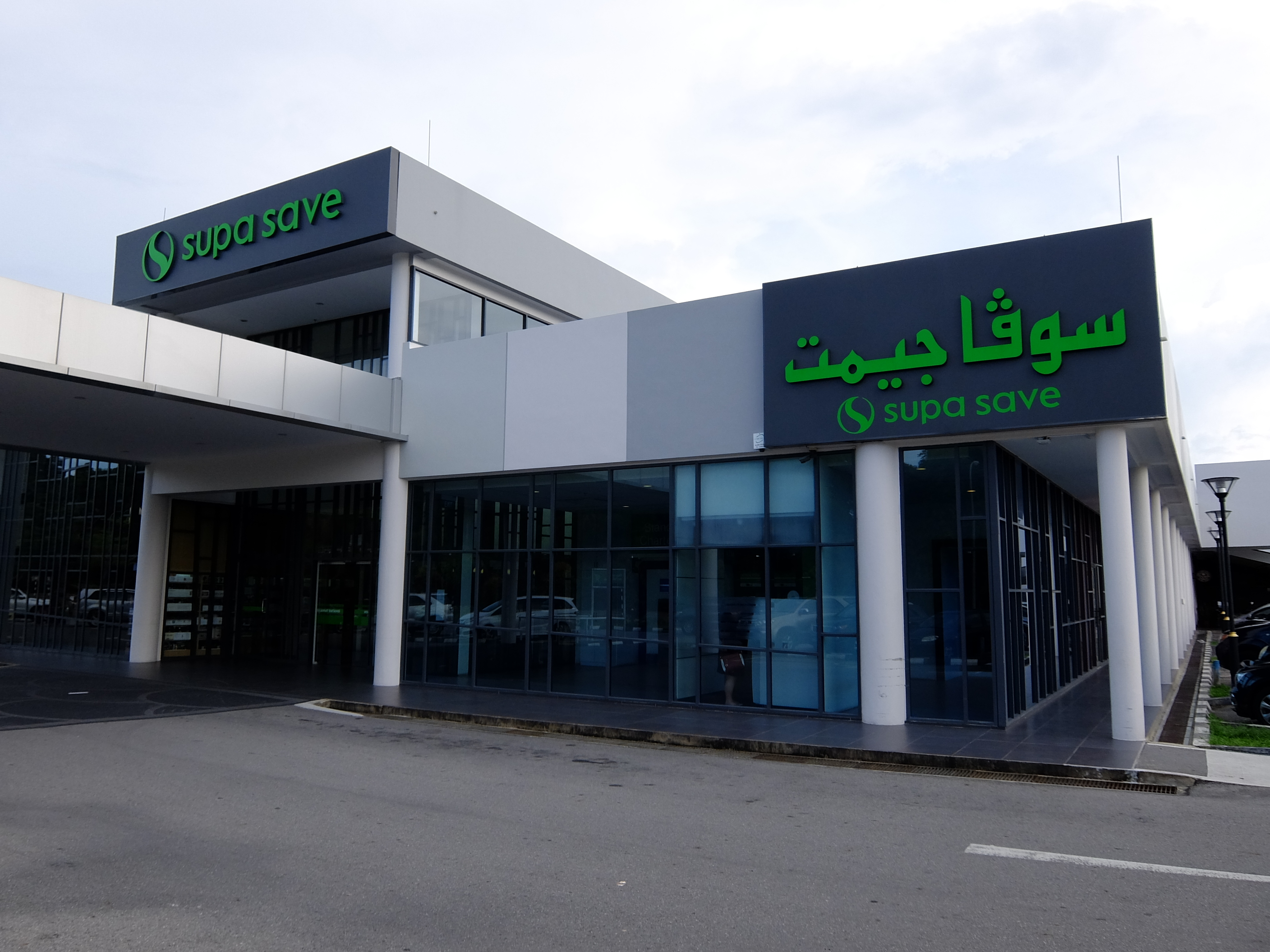 Supa Save, Panaga, Seria, Belait, Brunei